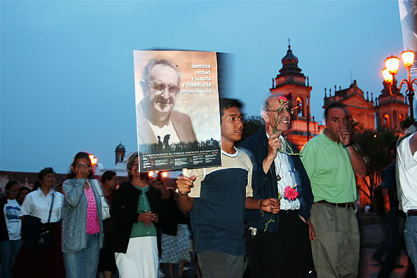 9th anniversary of the murder of Bishop Juan Gerardi. Guatemala April 26, 2007.